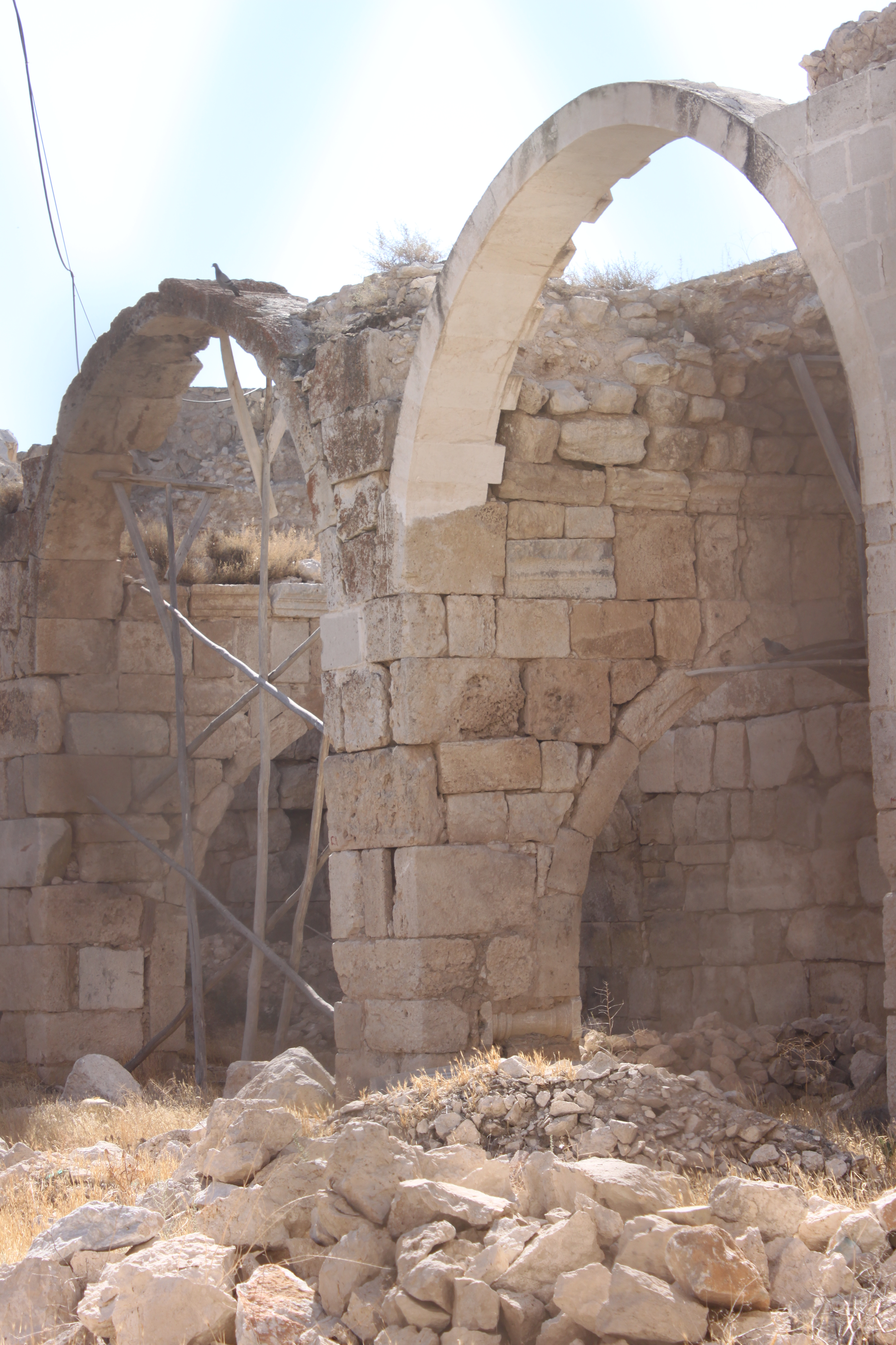 Obruk Hanı, courtyard aisles